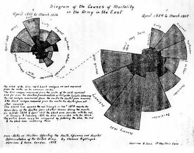 "Diagram of the Causes of Mortality in the Army in the East" Coxcomb Diagram written by Florence Nightingale